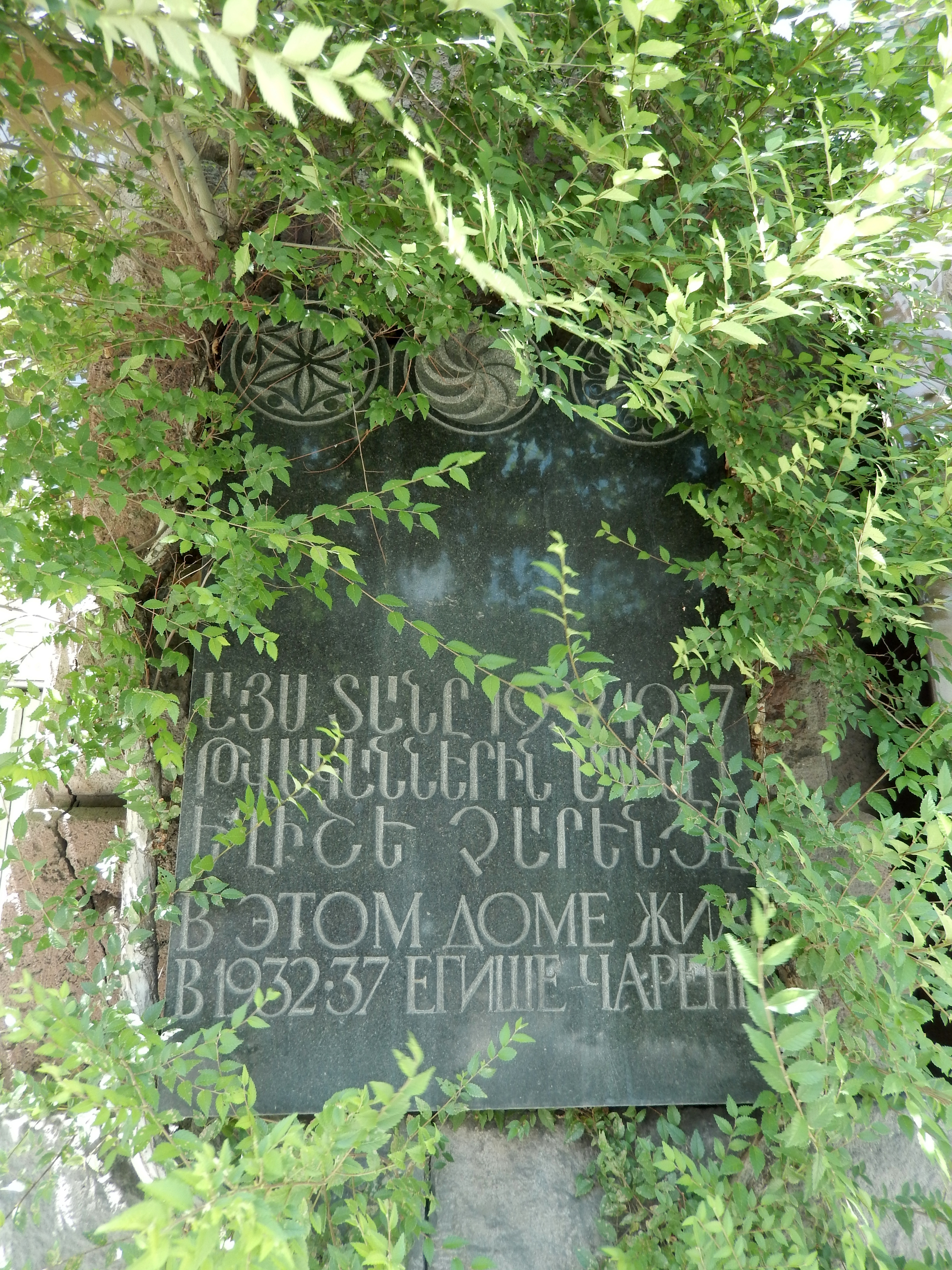 Yeghishe Charents plaque